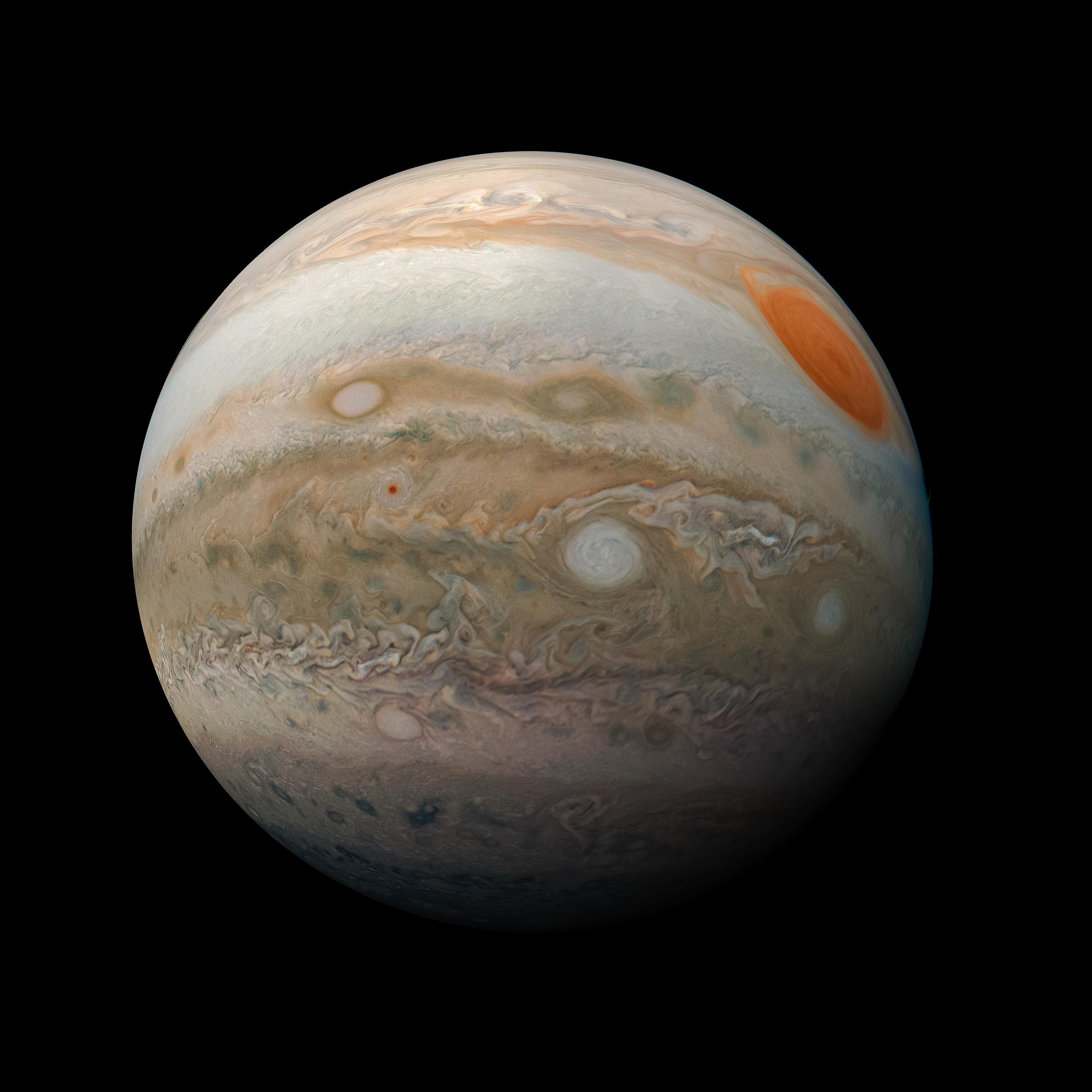 NASA Images | 21 March 2019 JUPITER MARBLE This striking view of Jupiters Great Red Spot and turbulent southern hemisphere was captured by NASAs Juno spacecraft as it performed a close pass of the gas giant planet. Juno took the three images used to produce this color-enhanced view on Feb. 12, 2019, between 9:59 a.m. PST (12:59 p.m. EST) and 10:39 p.m. PST (1:39 p.m. EST), as the spacecraft performed its 17th science pass of Jupiter. At the time the images were taken, the spacecraft was between 16,700 miles (26,900 kilometers) and 59,300 miles (95,400 kilometers) above Jupiter's cloud tops, above a southern latitude spanning from about 40 to 74 degrees. Citizen scientist Kevin M. Gill created this image using data from the spacecraft's JunoCam imager. Note that the source images were taken very close to the cloud tops of Jupiter and projected to look like a sphere in post-processing. JunoCam's raw images are available at for the public to peruse and process into image products. More information about Juno is online at and NASA's Jet Propulsion Laboratory manages the Juno mission for the principal investigator, Scott Bolton, of Southwest Research Institute in San Antonio. Juno is part of NASA's New Frontiers Program, which is managed at NASA's Marshall Space Flight Center in Huntsville, Alabama, for NASA's Science Mission Directorate. Lockheed Martin Space Systems, Denver, built the spacecraft. Caltech in Pasadena, California, manages JPL for NASA.